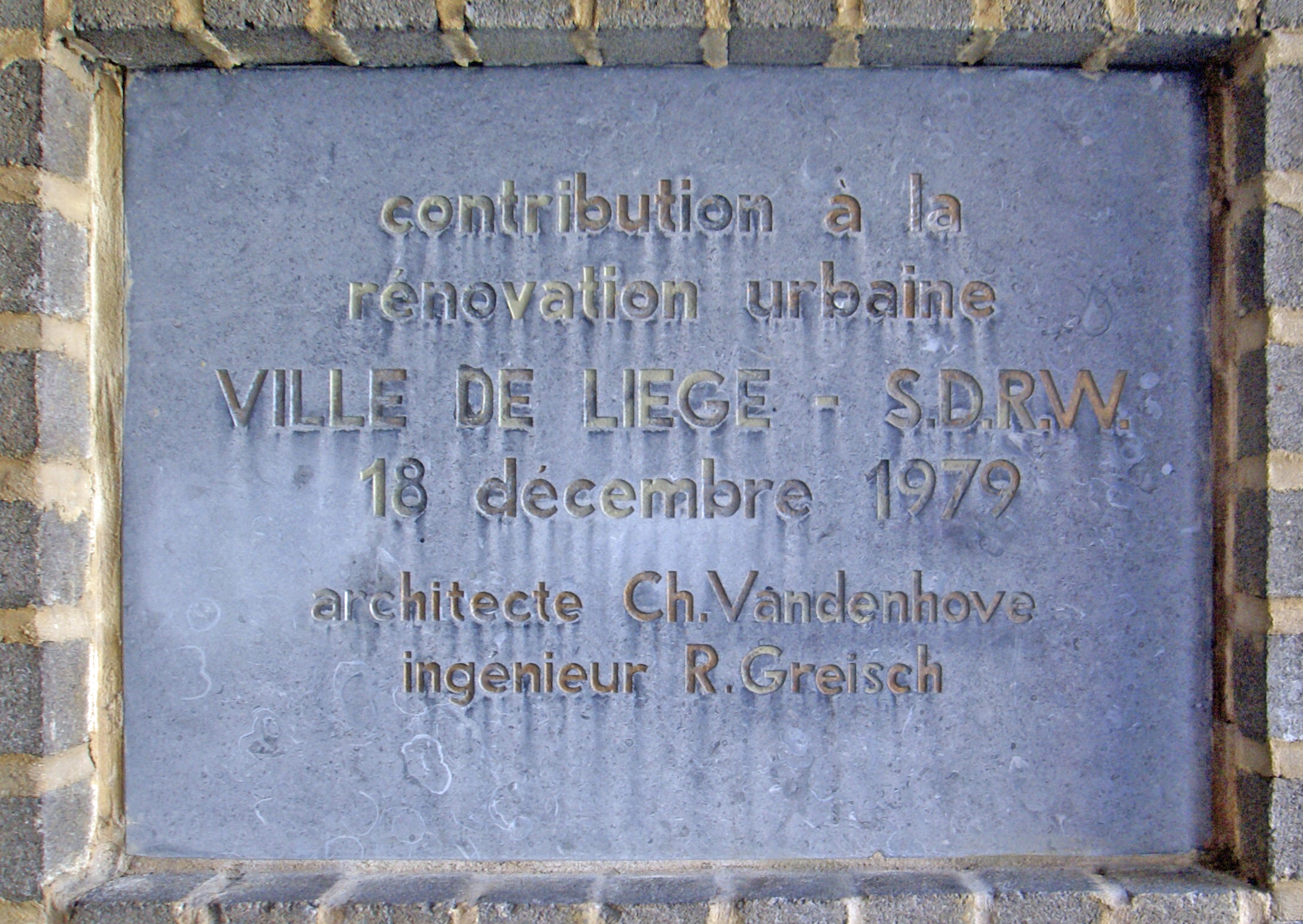 Liège (Belgium): Cour Saint-Antoine, plaque